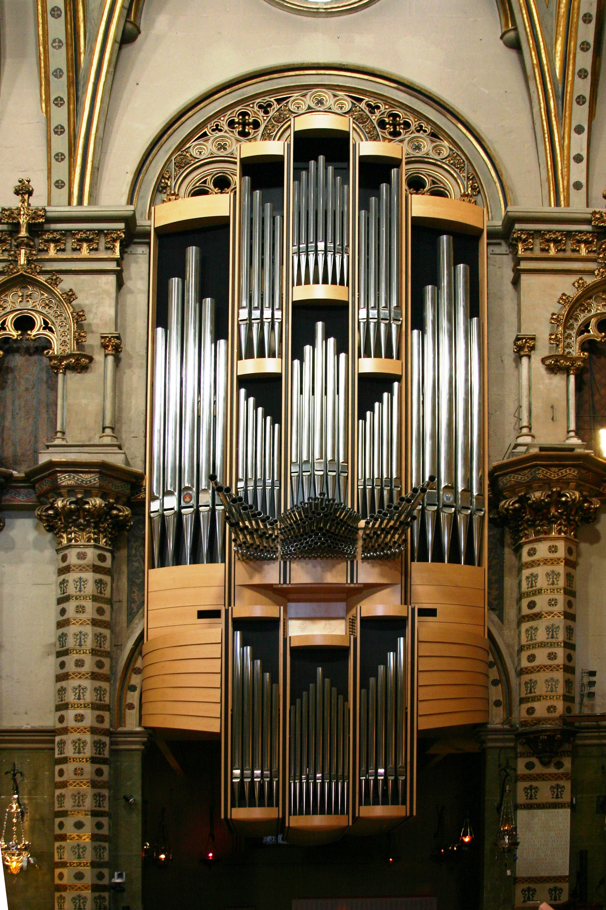 Interior of the Basilica of Montserrat